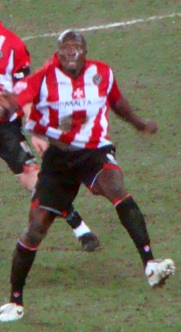 Nyron Nosworthy in his Blades kit during a loan spell.